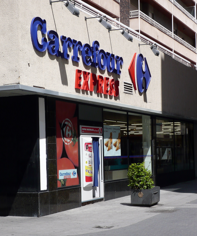 Carrefour Express shop in Valladolid (Spain)